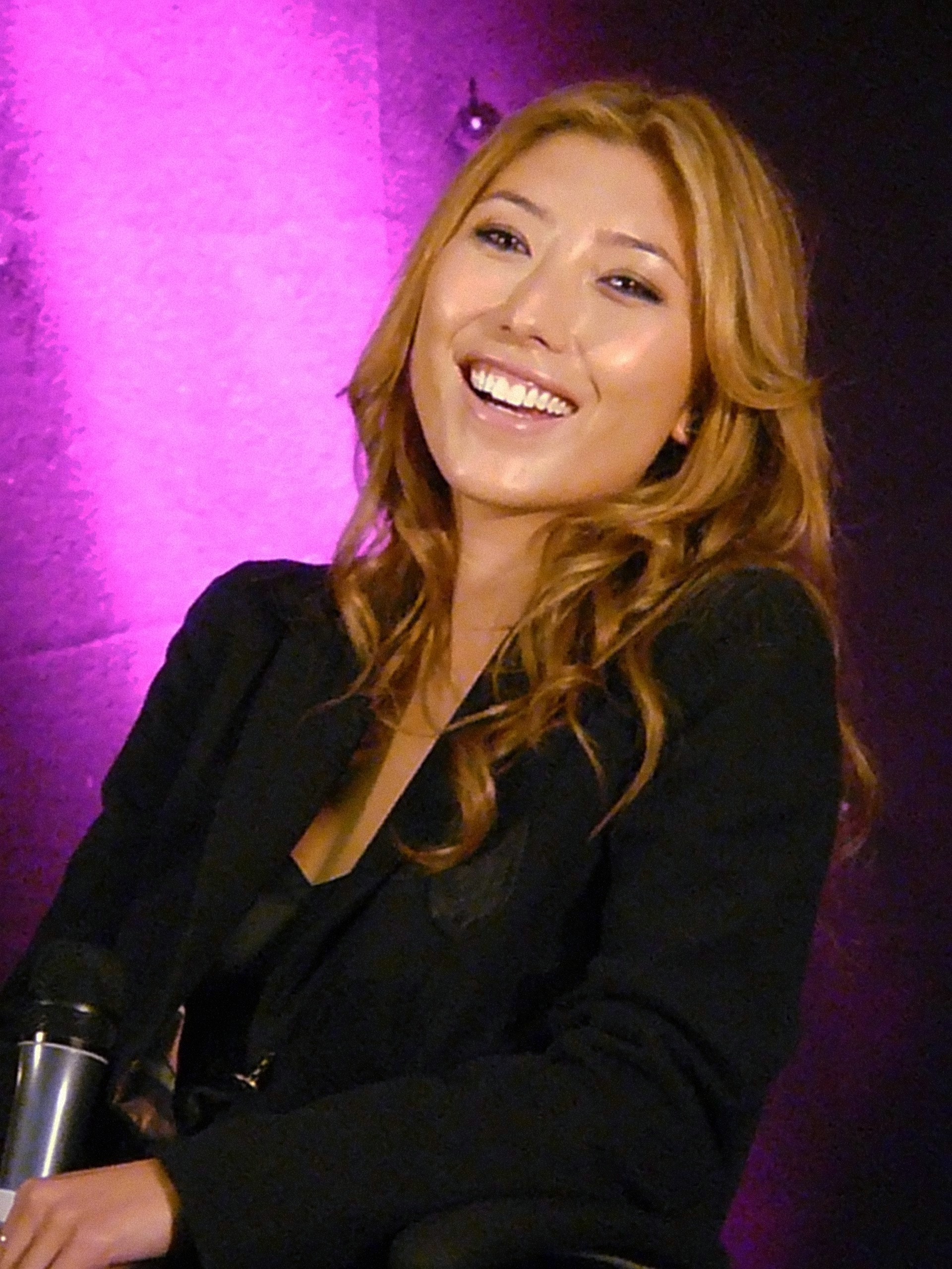 Dichen Lachman at Starfury: T1 convention in Birmingham, England.